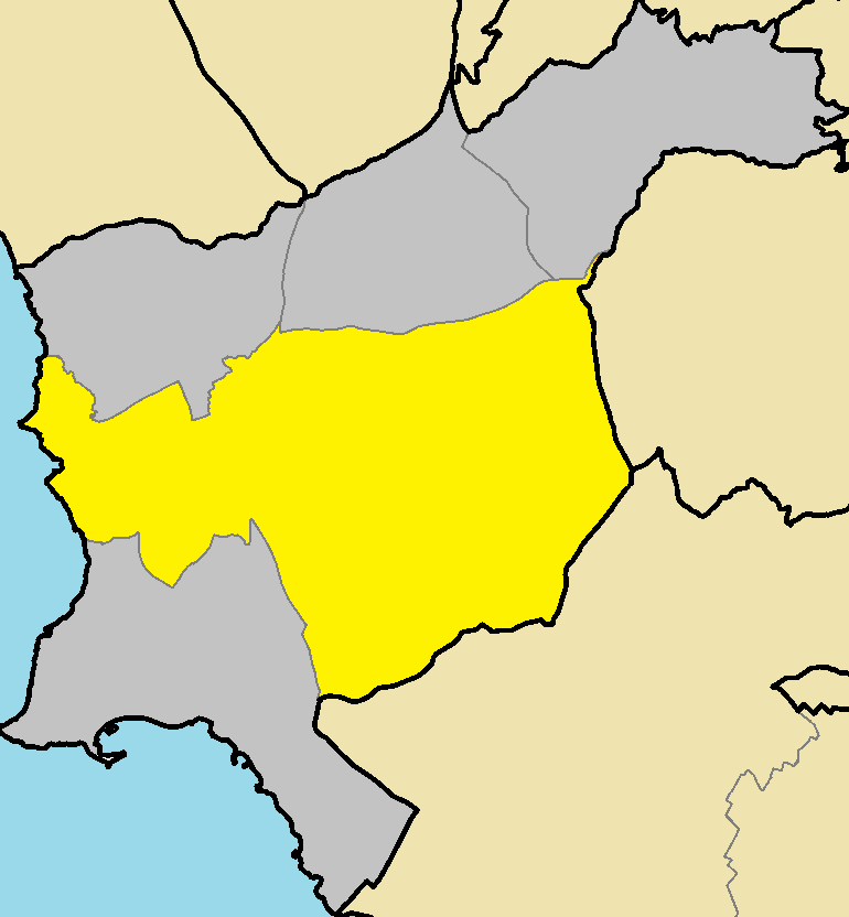 Ayios Theodoros in Paphos Municipality.